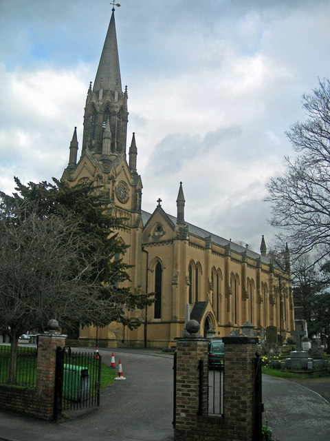 The Parish Church of St Margaret, Lee This is on Lee Terrace.